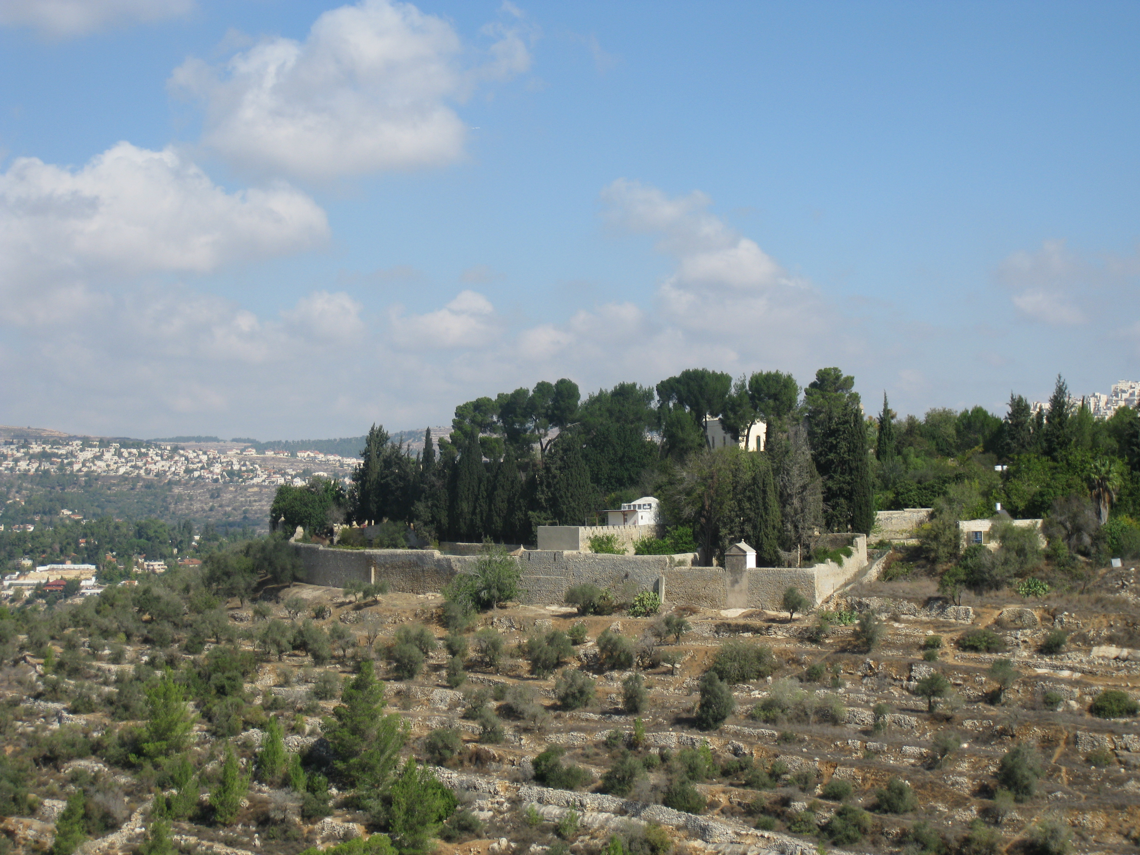 View of Notre-Dame de Sion from the Church of the Visitation